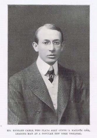 Richard Carle in the London production of The Belle of Bohemia -The Sketch, 27 February 1901, pg. 235